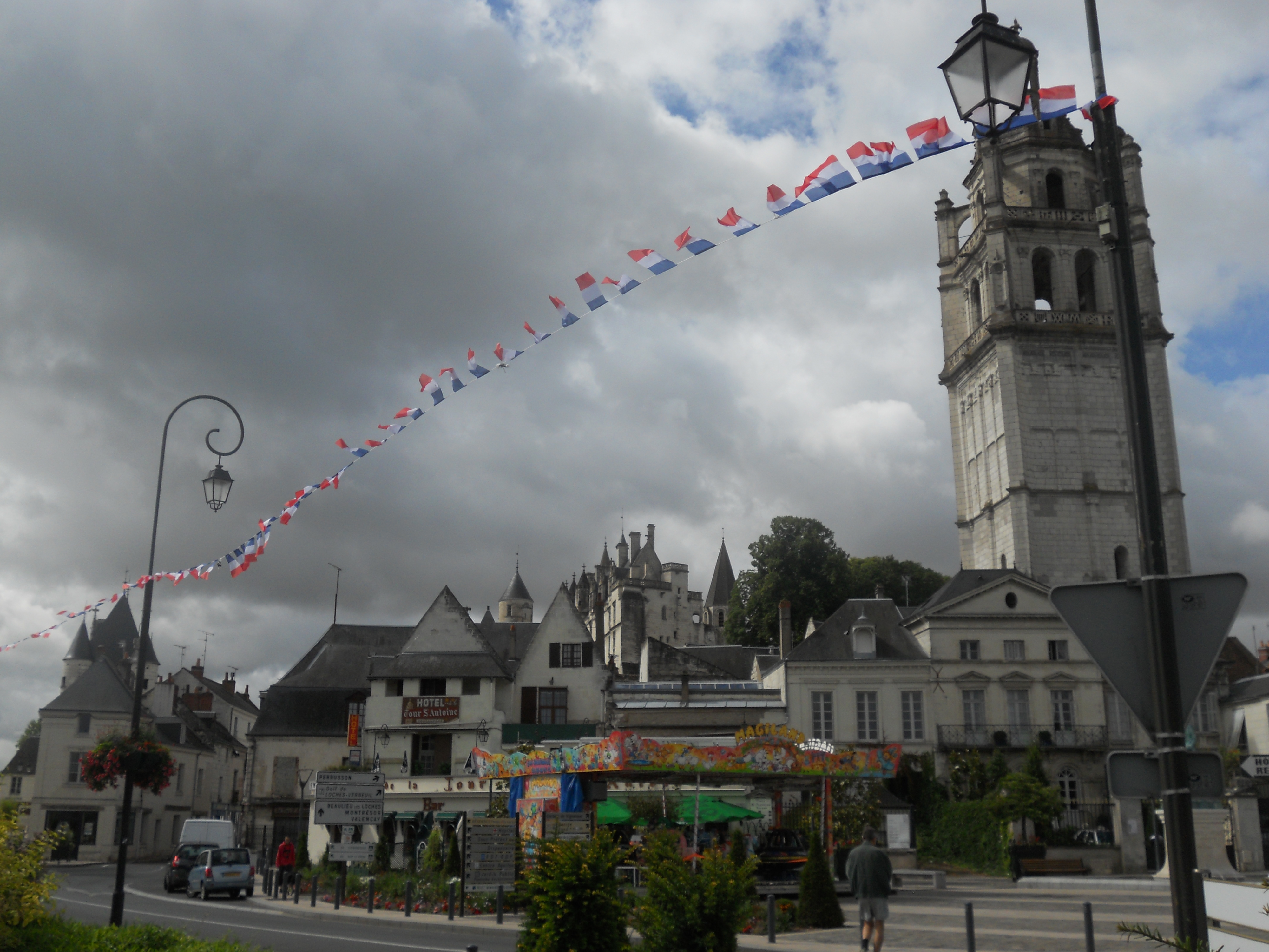 The Place du Marché-aux-Fleurs in Loches, with the Tour St-Antoine, and the Château de Loches in the background.